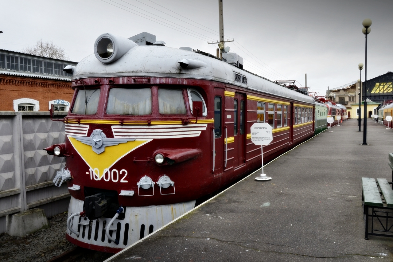 Admiralteysky District, St Petersburg, Russia